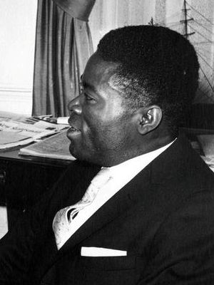 Ambassador of Gabon, Joseph Ngoua during a meeting with President John F. Kennedy.